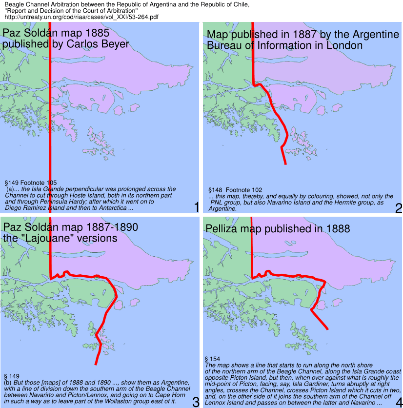 Four maps refused by the Court of Arbitration Beagle Channel Arbitration between the Republic of Argentina and the Republic of Chile Report and Decision of the Court of Arbitration